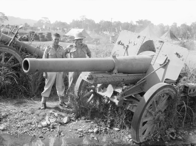 Lae, New Guinea. C. 1944-02. Squadron Leader C. Trewen, Sydney, NSW (left), and Flying Officer N. Bartlett, Perth, WA, looking at a Japanese Type 96 15 cm howitzer captured by the AIF at Lae.